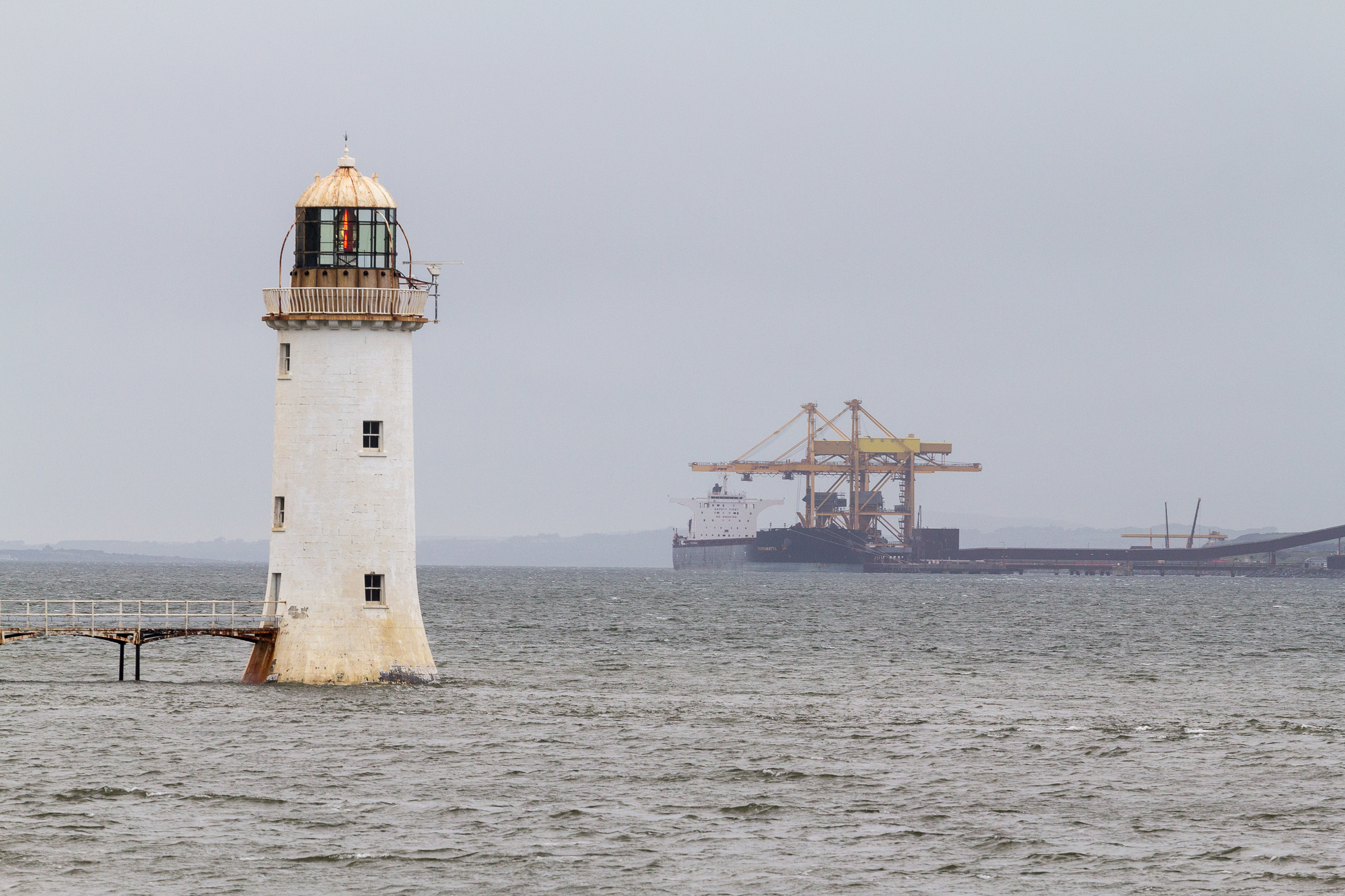 Mouth of River Shannon with Tarbert Lighthouse